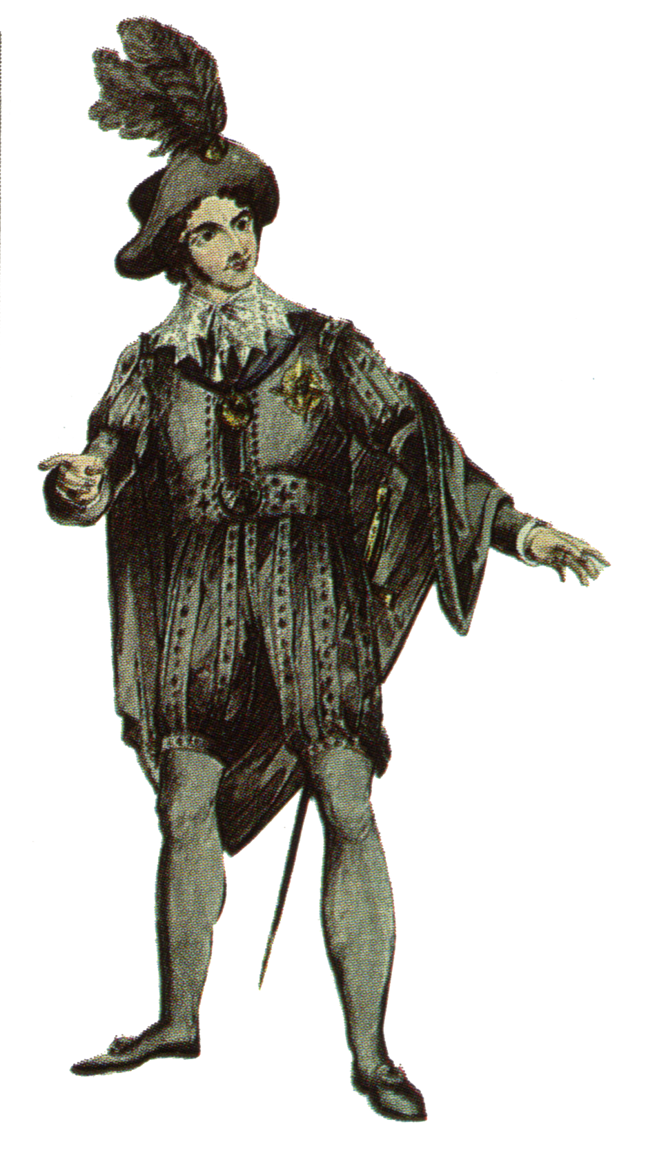 English actor Edmund Kean as Hamlet, c1814